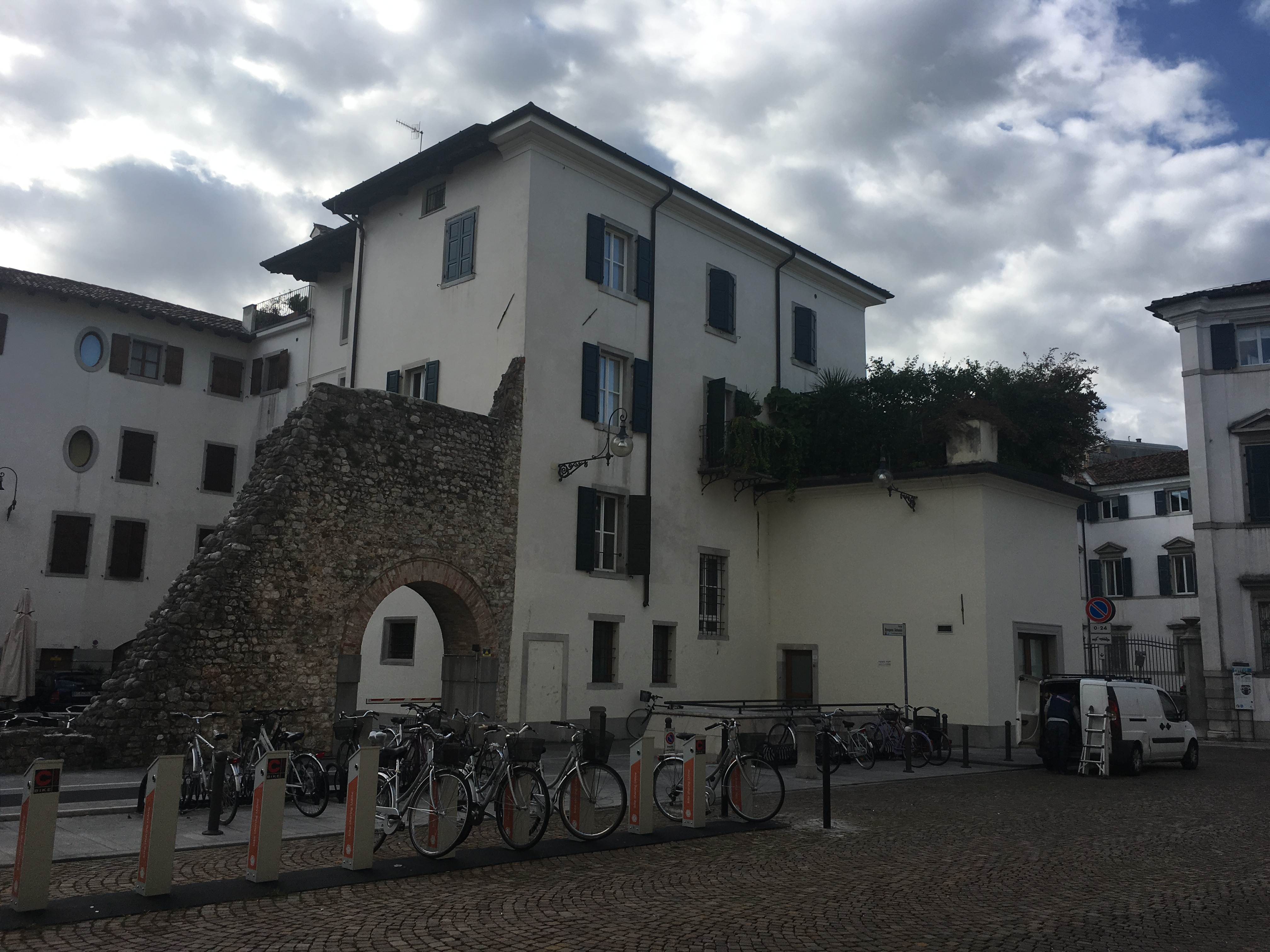 Mura via Antonini